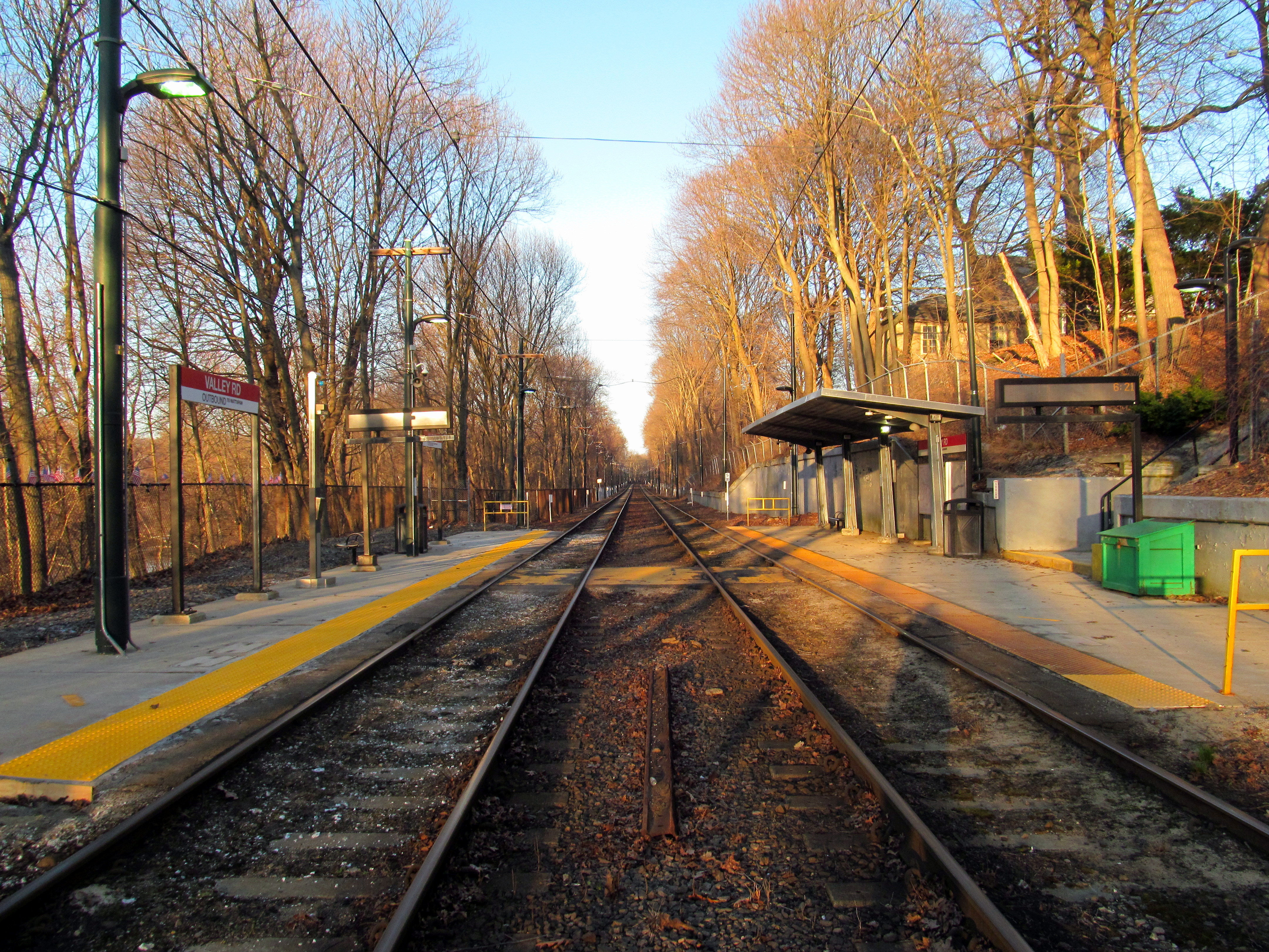 Valley Road station in March 2016